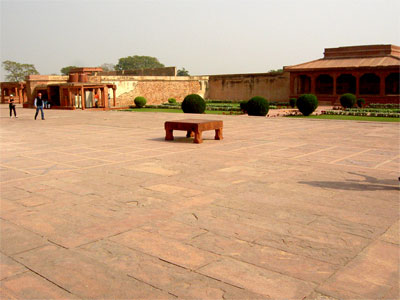 Pachisi board on the Courtyard of the Fatehpur palace (India)